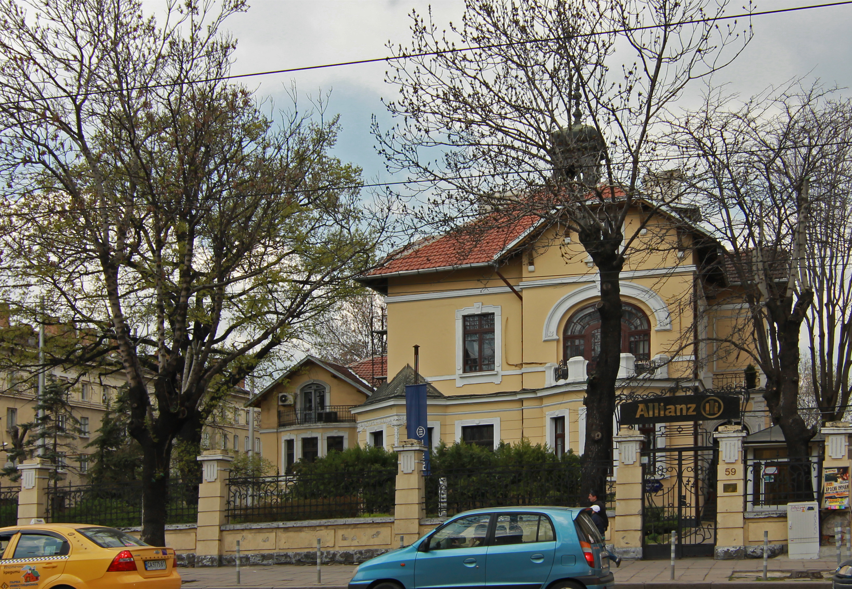 Doctor Funk's House, built 1904 by Architect Kiro Marichkov